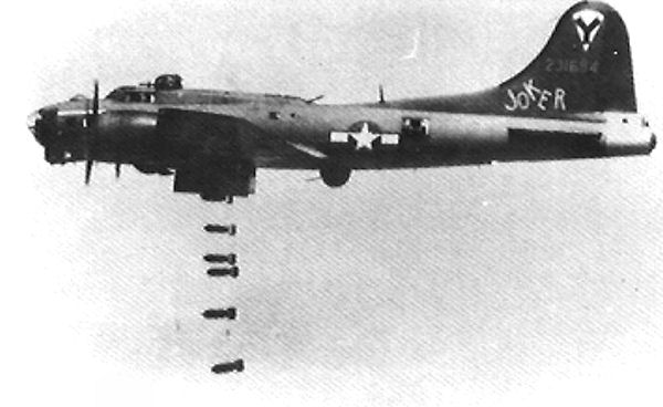 B-17G 42-31684 "Joker" flew with the 774th Bombardment Squadron from 9 May 1944 until it was downed by an enemy fighter over Blechhammer, attcking the chemical plants there on 7 July. (USAAF Photo)